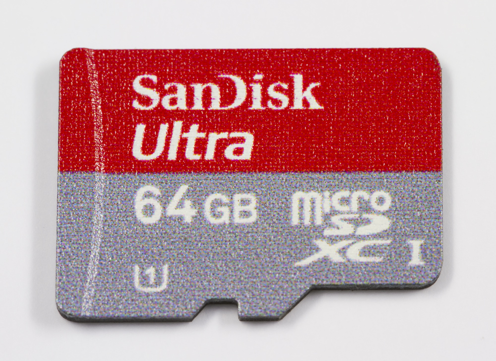 64 GB microSDXC card